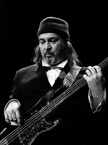 Bill Laswell at the Moers Festival 2006